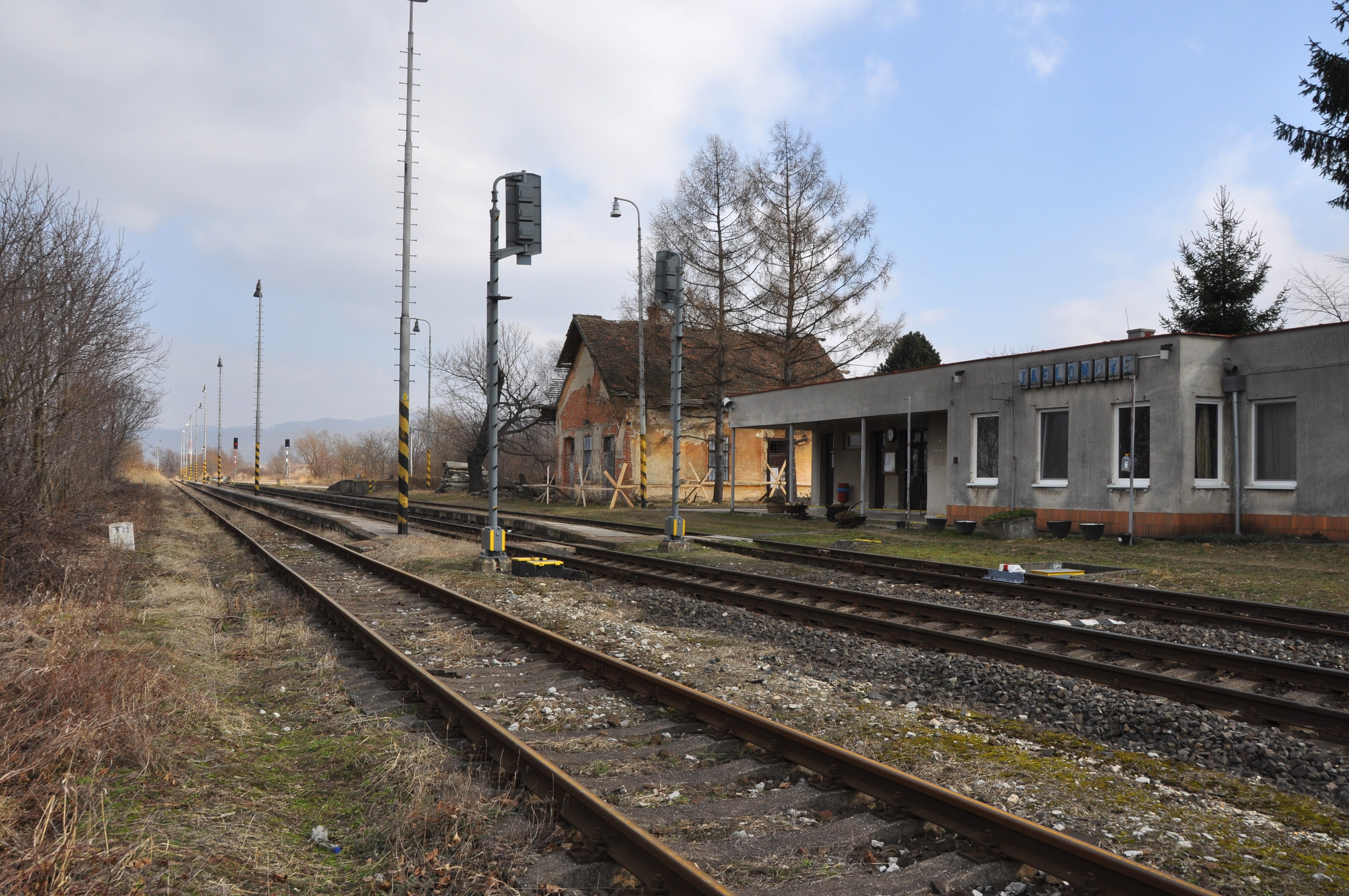 Jablonové – railway station, March 2011